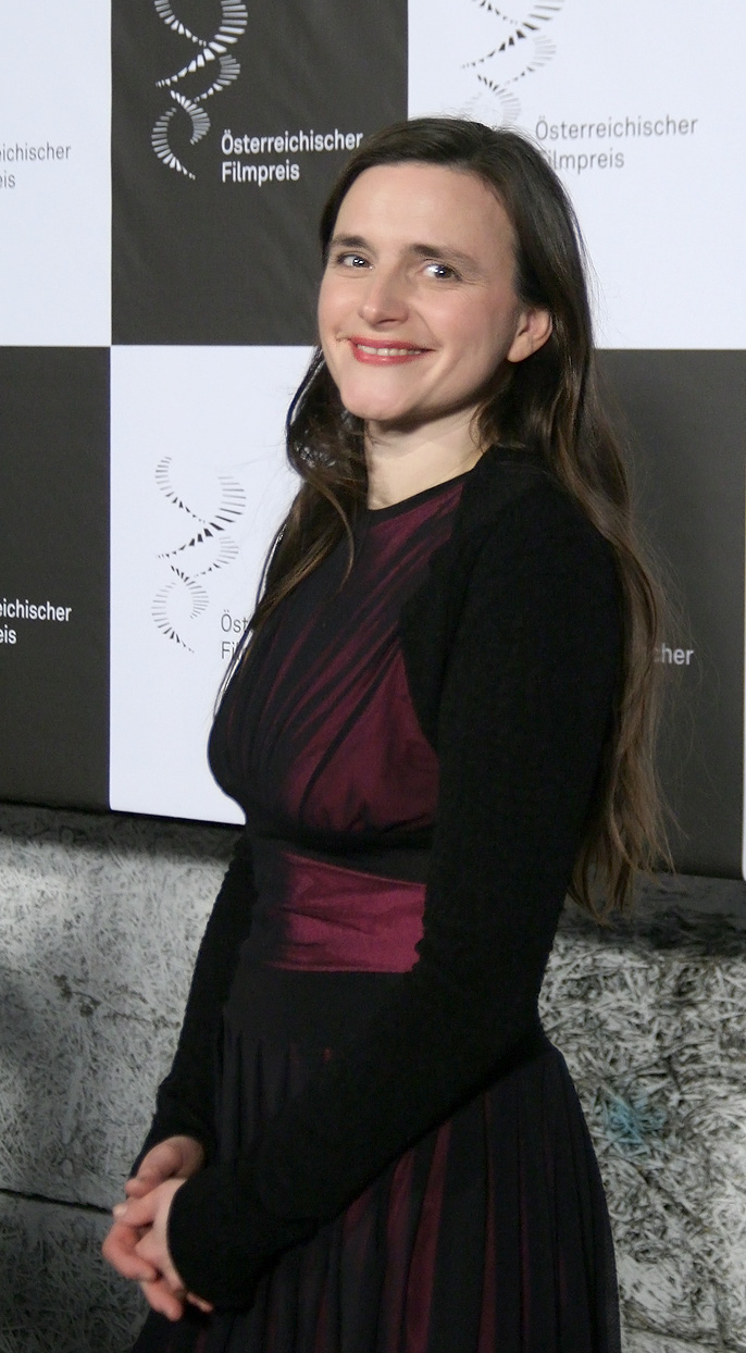 Barbara Albert, Austrian Film Awards 2012 (Vienna).